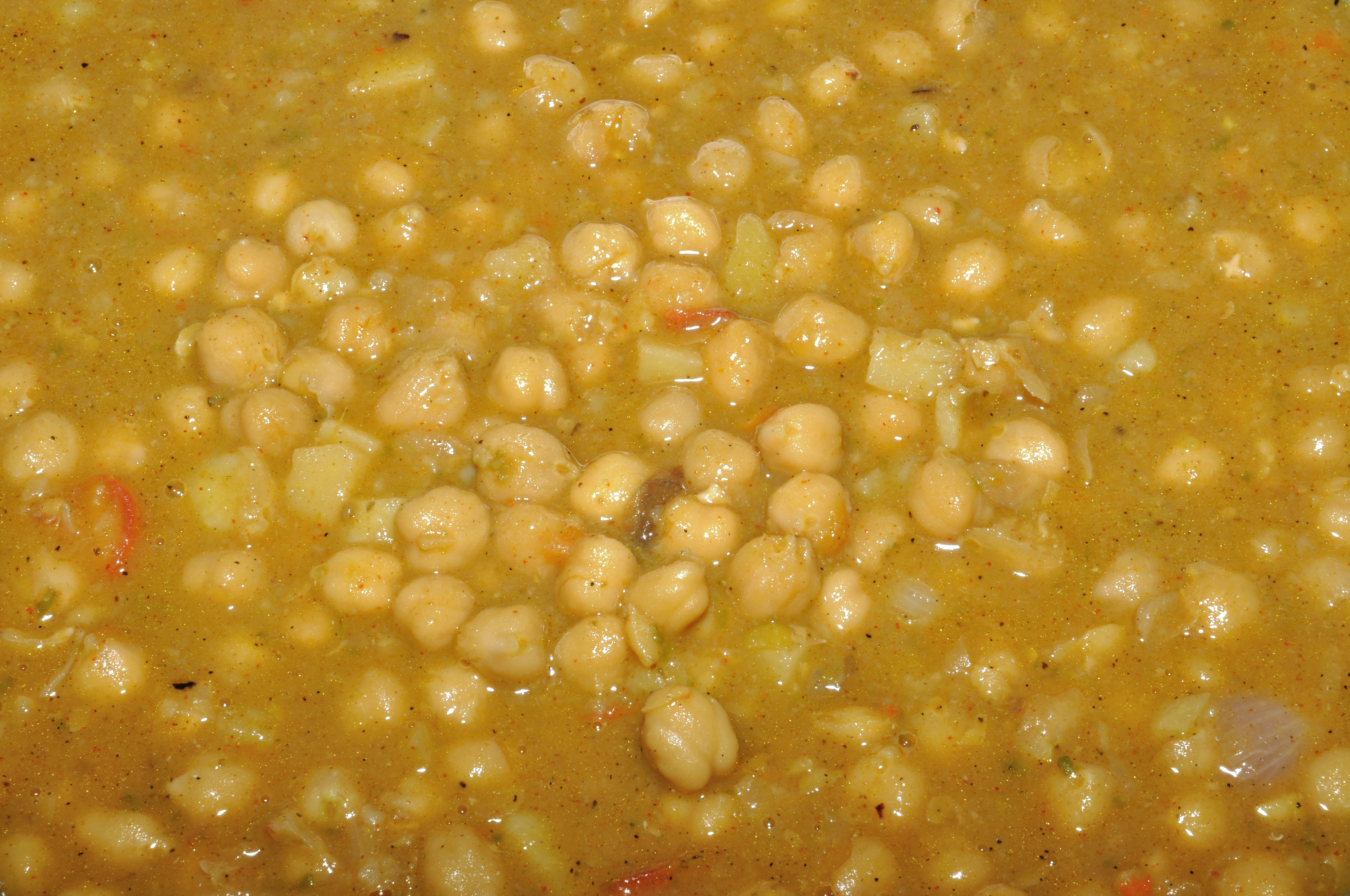 Spicy chick peas or hn: Chole of Chole bhature, popular Punjabi food.